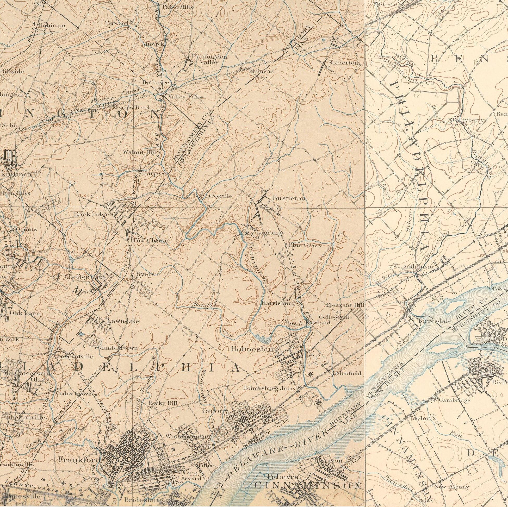 Old map showing Northeast Philadelphia around 1900. Composite of two United States Geological Survey (USGS) maps dating from 1898 and 1902